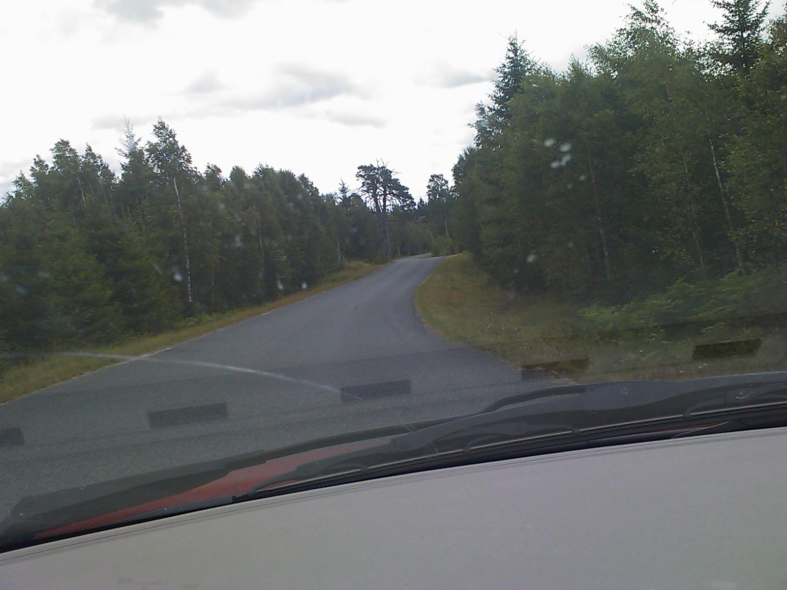 Swedish Road 125. North of Åseda.